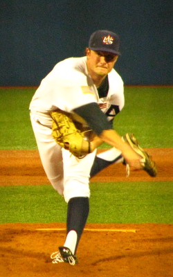 Gerrit Cole